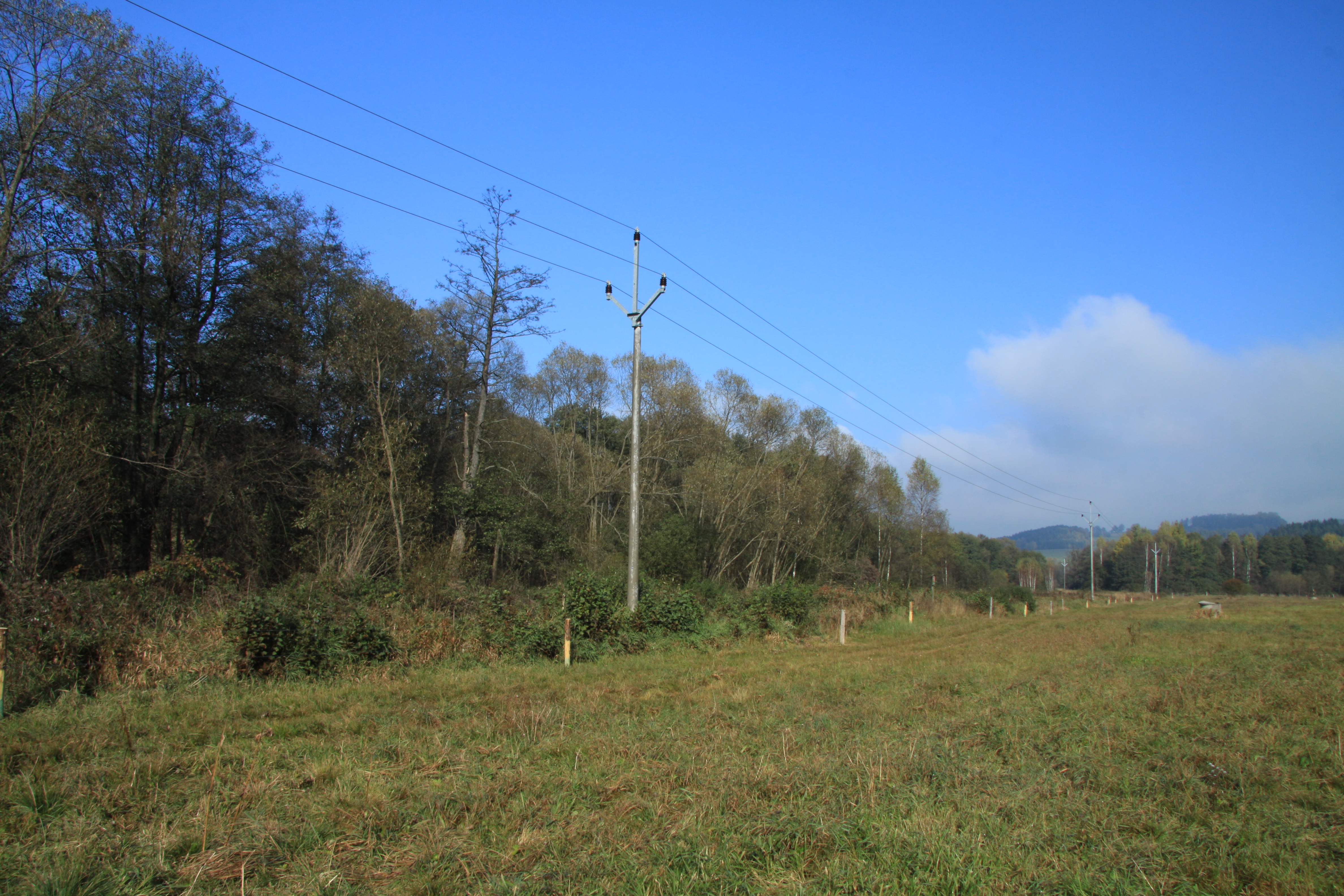 Nature reserve Dobročkovské hadce near Dobročkov village, part not lying on the area of CHKO Blanský les, Prachatice District, Czech Republic Project: Chráněná území.